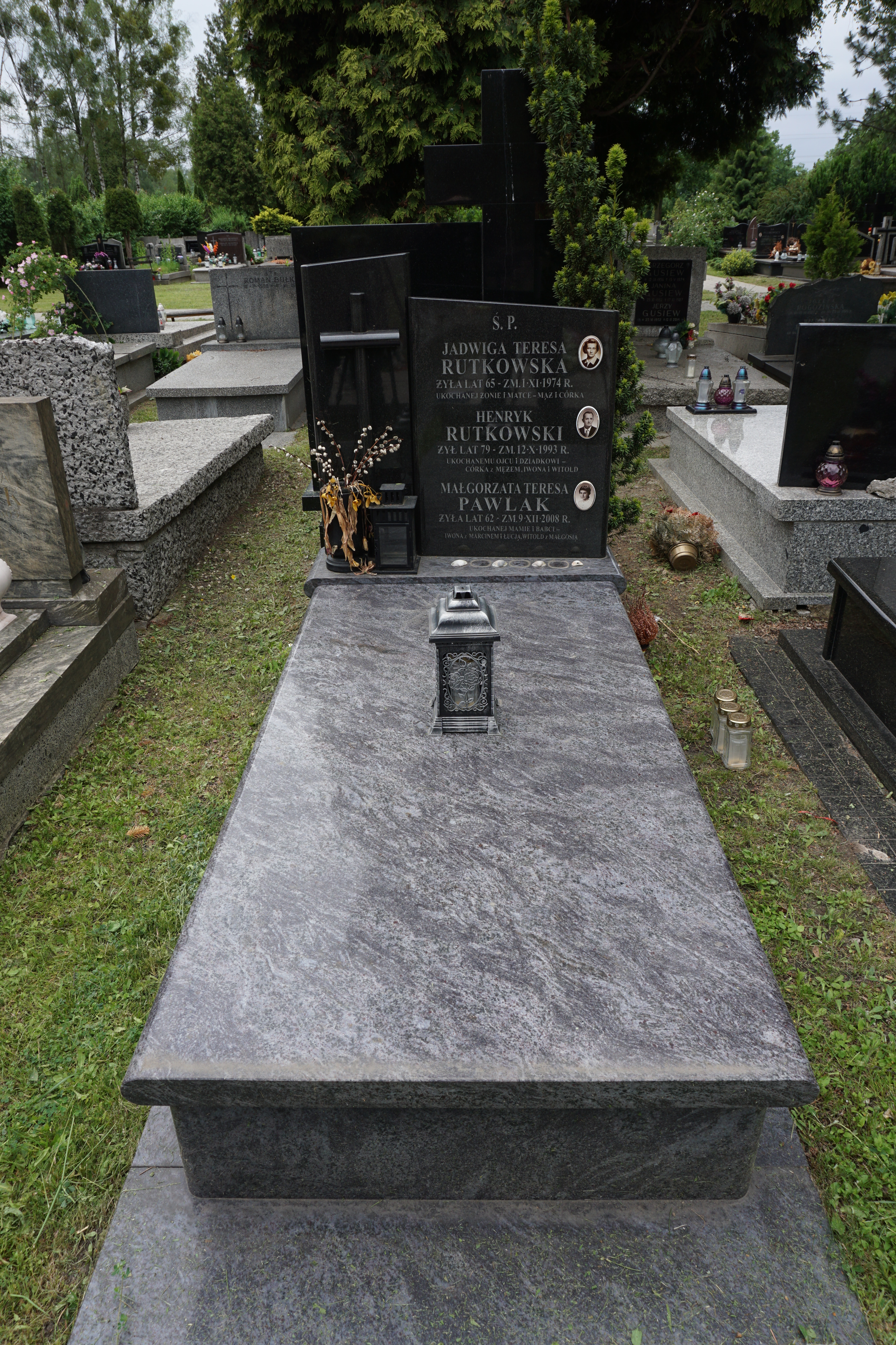 The grave of Henryk Rutkowski at the North Municipal Cemetery in Warsaw (section E-XII-4, row 9, grave 3)